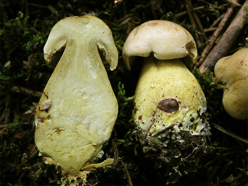 Tricholoma sulphureum - Tricholomataceae - Agaricales; de: Schwefelritterling, en: Sulphur Knight, Gas Agaric, fr: Tricolome soufré